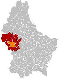 Own edit of Kanton RedangeLocatie.png